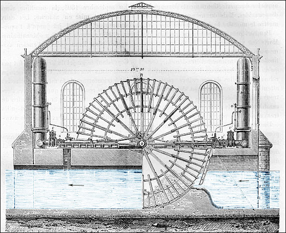 Machine of Marly. Detail of the machine of Dufrayer.